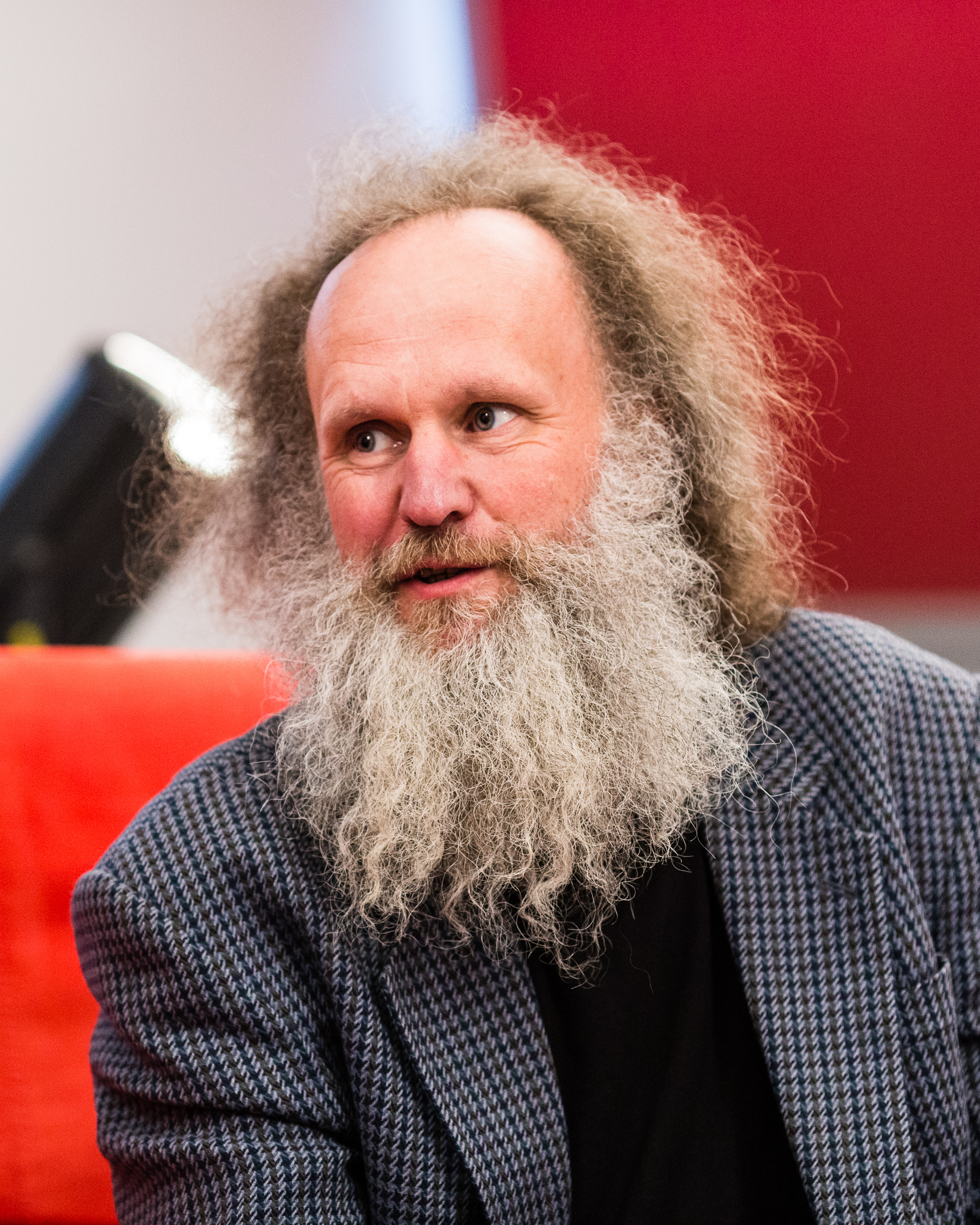 Pavel Kolmačka on Authors’ Reading Month 2019, Wrocław, Poland